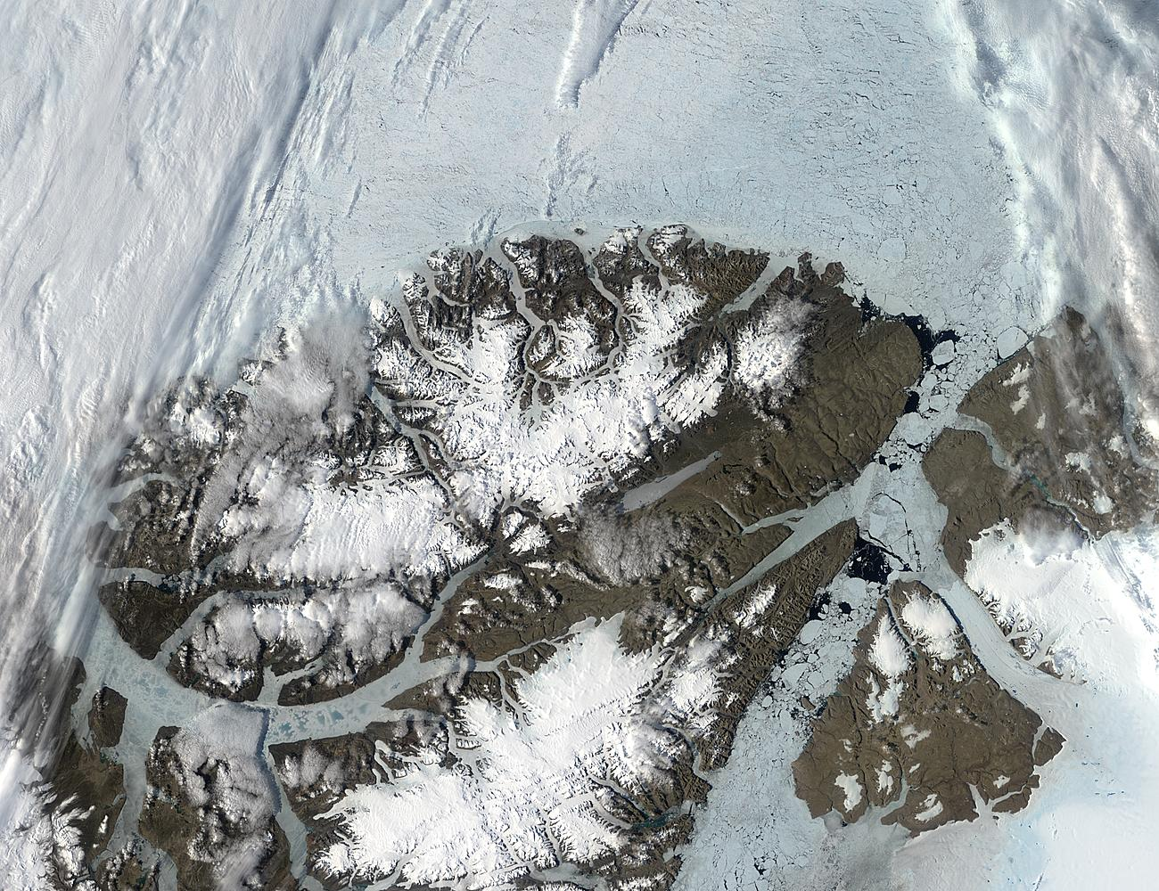 Ellesmere Island, Northern Canada July 12, 2002, 21:35 UTC larger version here Image Courtesy: NASA/MODIS Rapid Response System A cropped version: Image:EllesmereIsland July 2002 Cropped - Ayles.jpg.